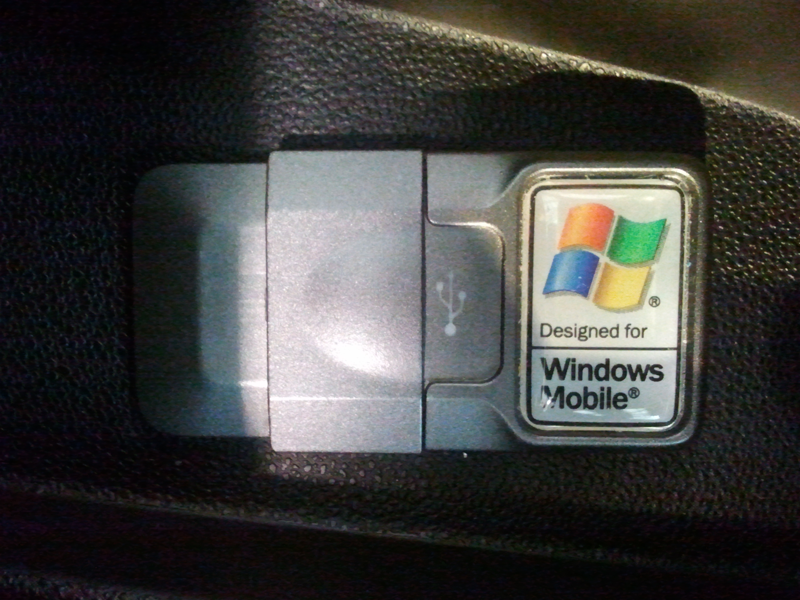 USB Port. Fiat Blue&Me